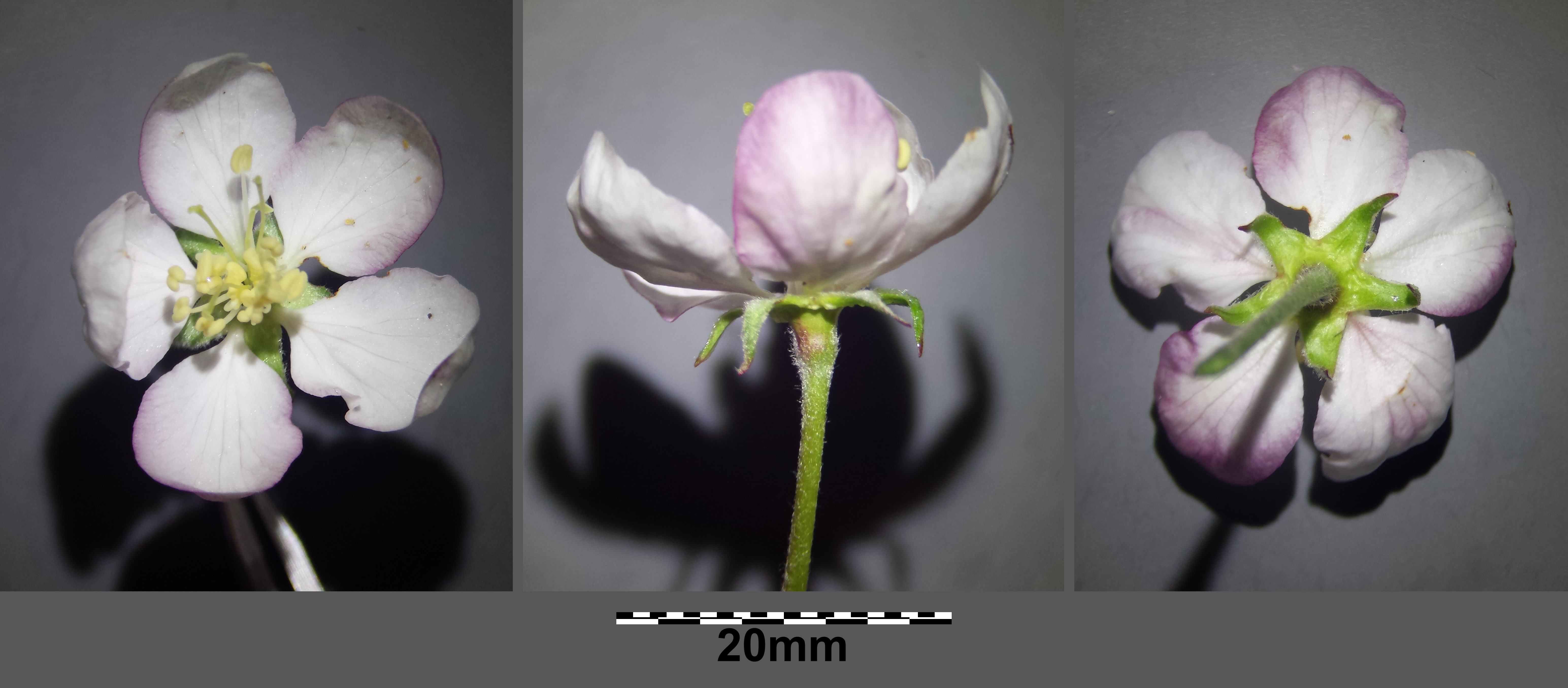 Flower Taxonym: Malus sylvestris ss Fischer et al. EfÖLS 2008 ISBN 978-3-85474-187-9 Location: Rohrwald, district Korneuburg, Lower Austria - ca. 300 m a.s.l. Habitat: Carpinion betuli